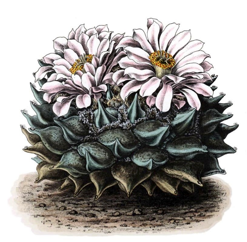 Ariocarpus retusus